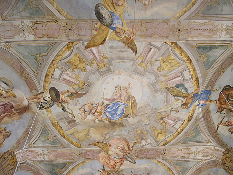 Pilgrimage church Maria Aich (Peissenberg, Landkreis Weilheim-Schongau, Upper Bavaria, Germany). Central part of the great fresco at the nave (Matthäus Günther, 1734)